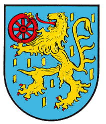 Coat of arms of Bischheim (Donnersberg)